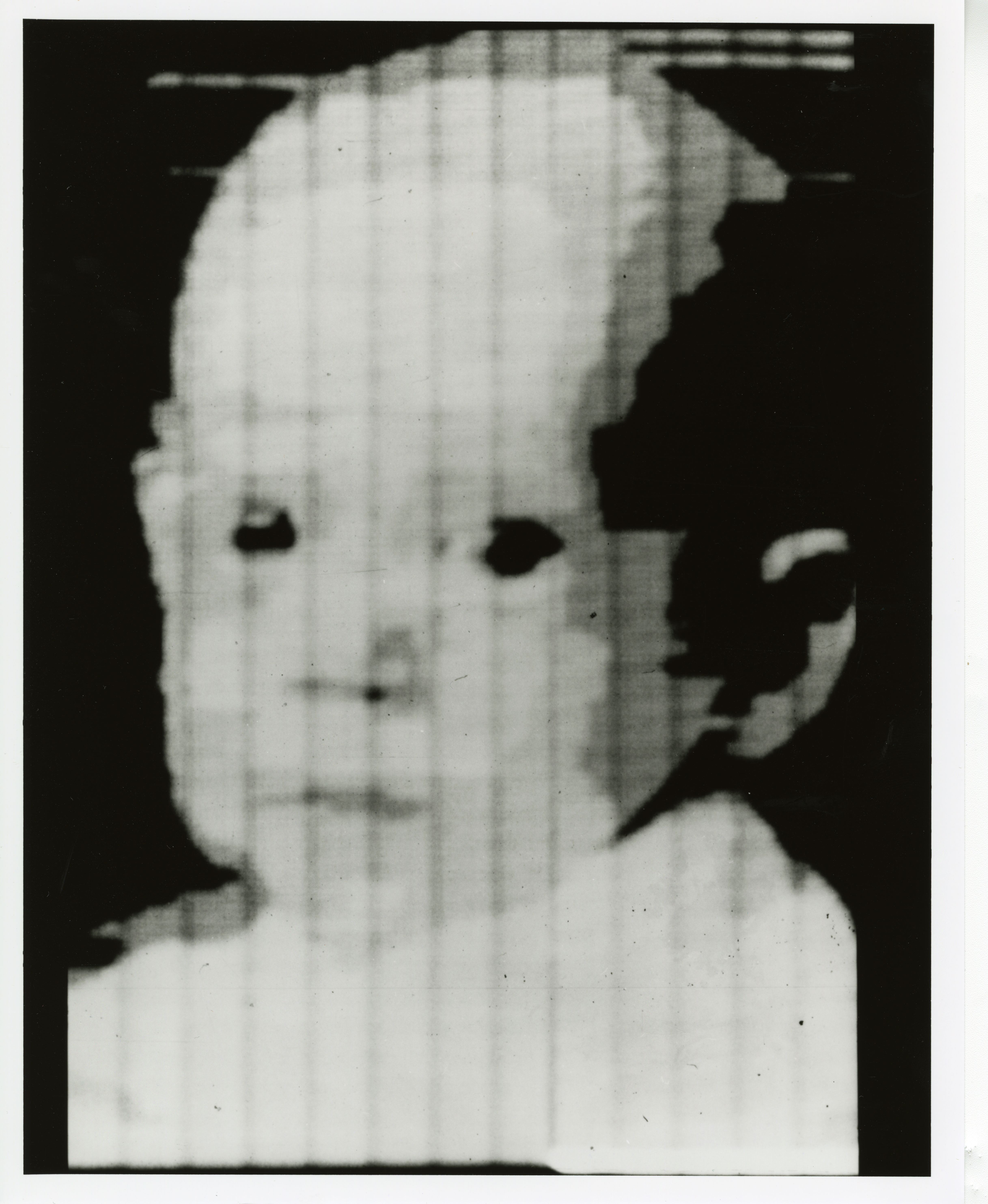 One of the first scanned images. Produced by NIST in 1957, the image shows Walden Kirsch, son of the leader of the team that developed the image scanner. This is a composite of two binary scans to produce approximate gray levels.